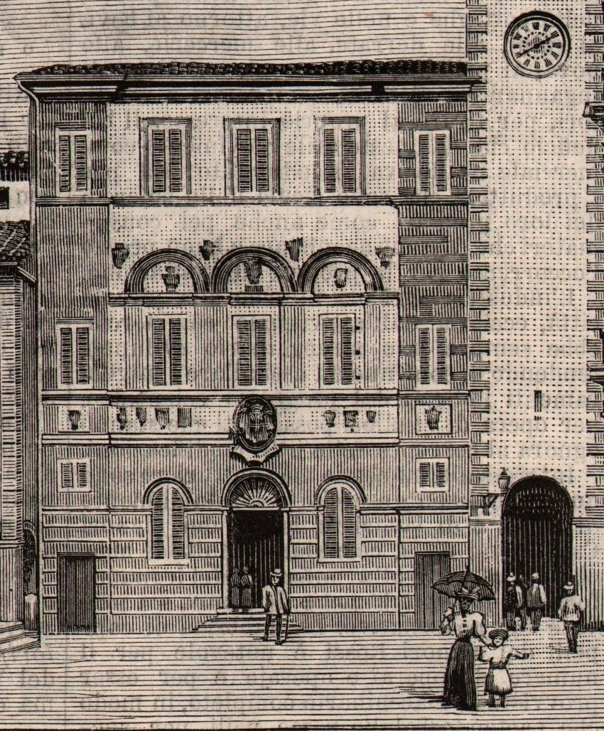 The Palace of Podestà in Montevarchi